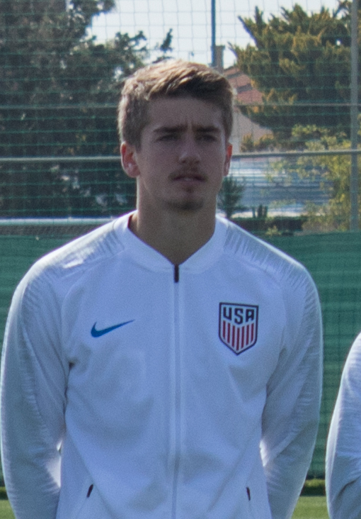 USA U20 v France U20, 22 March 2019